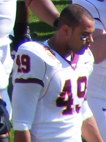 Chris Ellis, defensive end for the Virginia Tech Hokies